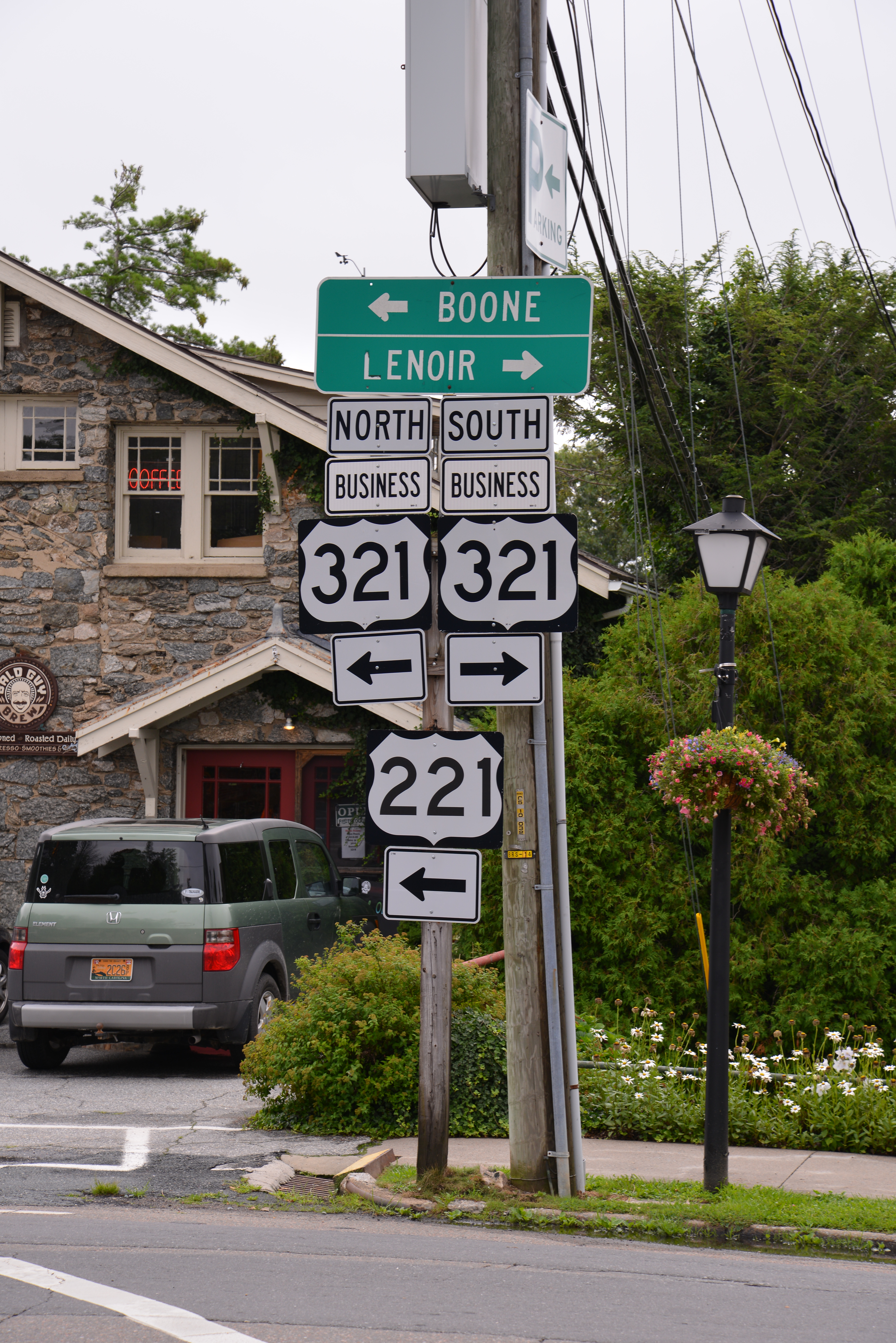 Directional signs in downtown Blowing Rock for US 221 and US 321 Business.